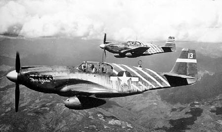 A U.S. Army Air Forces North American P-51A two ship formation of the 1st Air Commandos. The background (No. 1) plane was flown by CO Phil Cochran; No. 13 "Miss Virginia" was flown by Deputy Commander Petty.